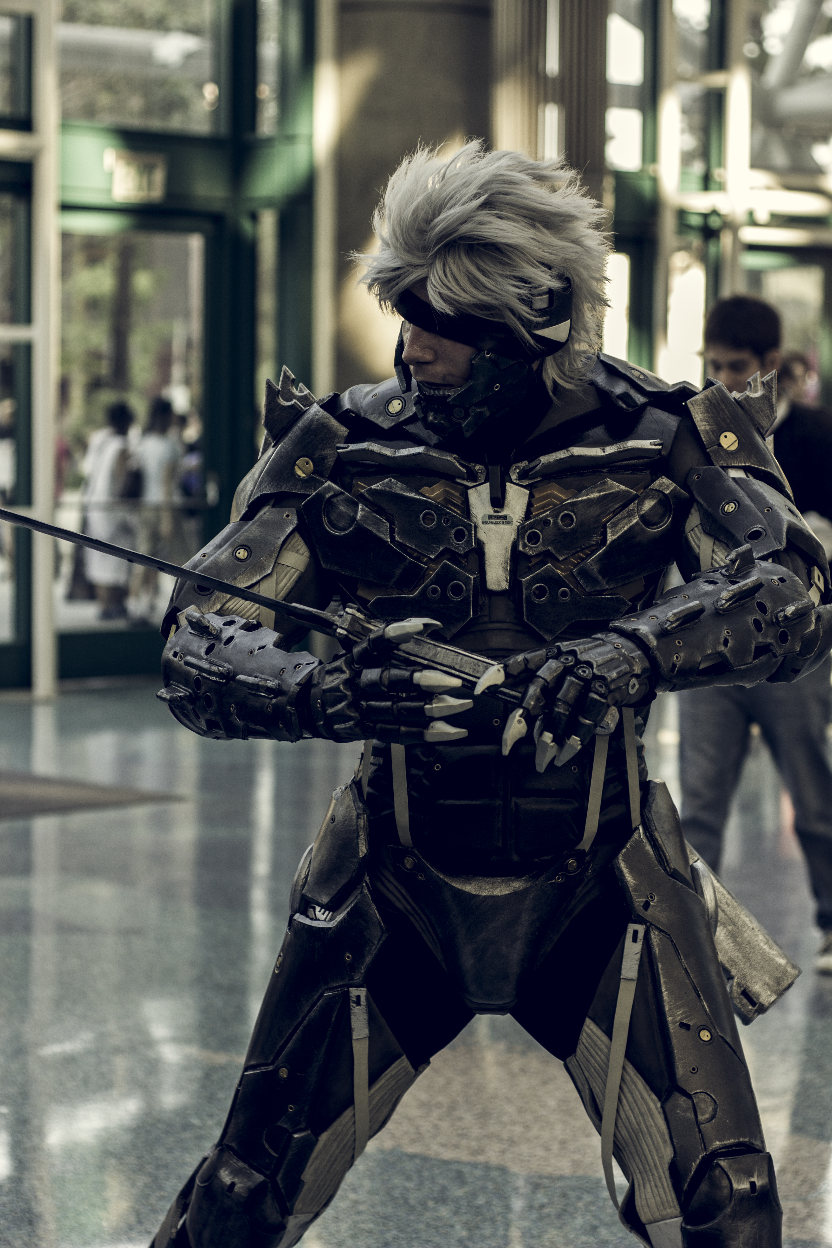 Jeff Siegert (also known as Xailas) cosplaying as Raiden, from the Metal Gear series at Anime Expo 2013. Taken on July 5, 2013 with a Canon EOS REBEL T2i.